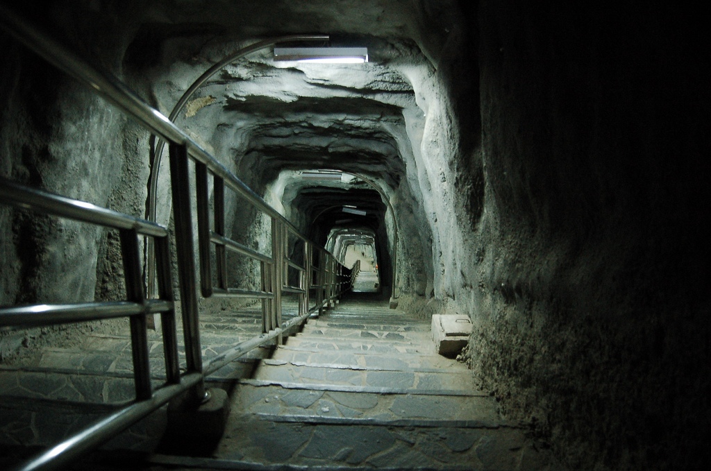 Japanese Tunnel, Bukittinggi, West Sumatra, Indonesia. Description on Flickr: "A creepy view towards the entrance of Japanese Tunnel. it was said that there are 3 similar Japs tunnel available in Indonesia, one in Irian Jaya and the other is in Bandung. Only in Bukit Tinggi is open as a tourist attraction".